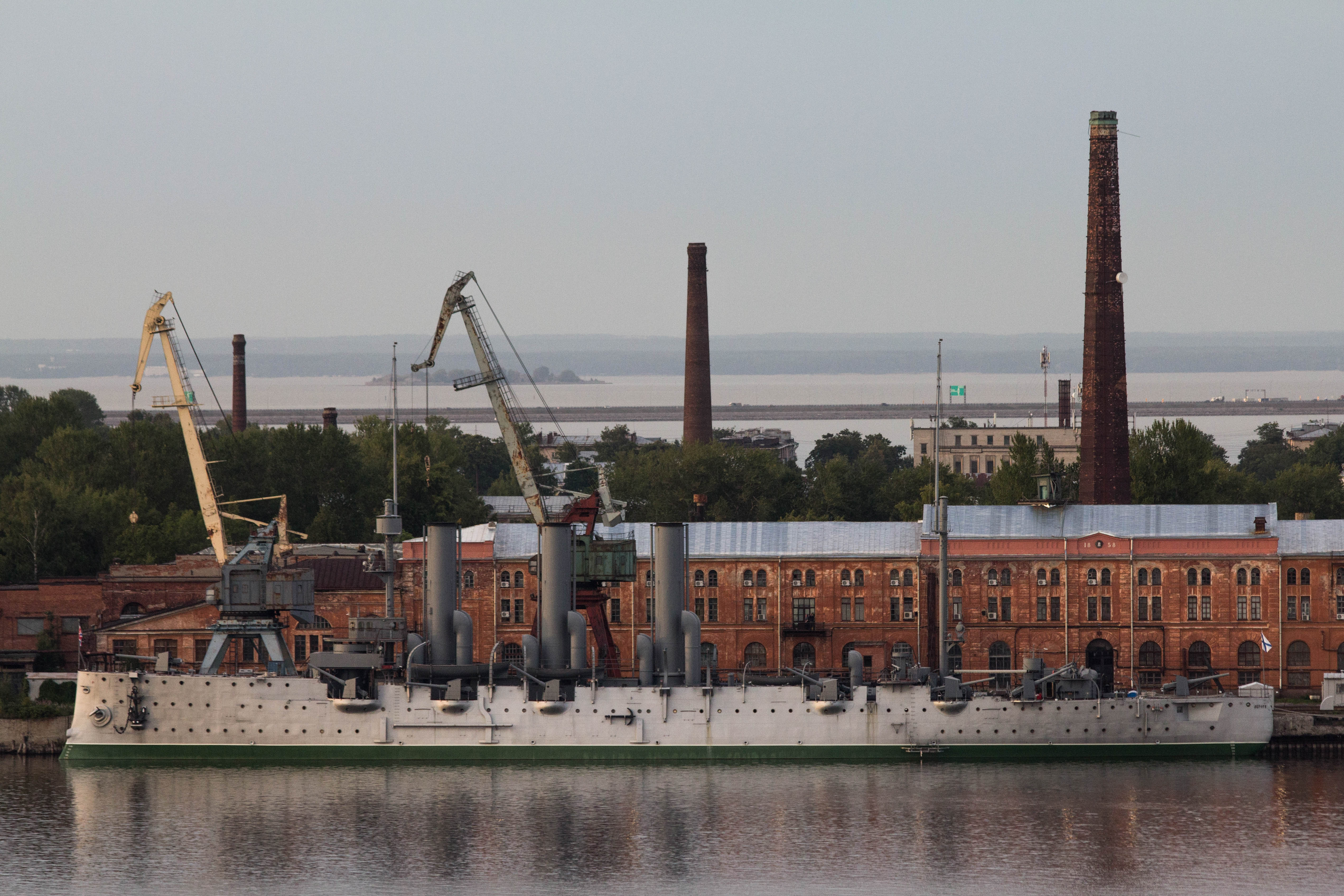 The Russian battleship Avrora moored at Kronstadt near St Petersburg in September 2015